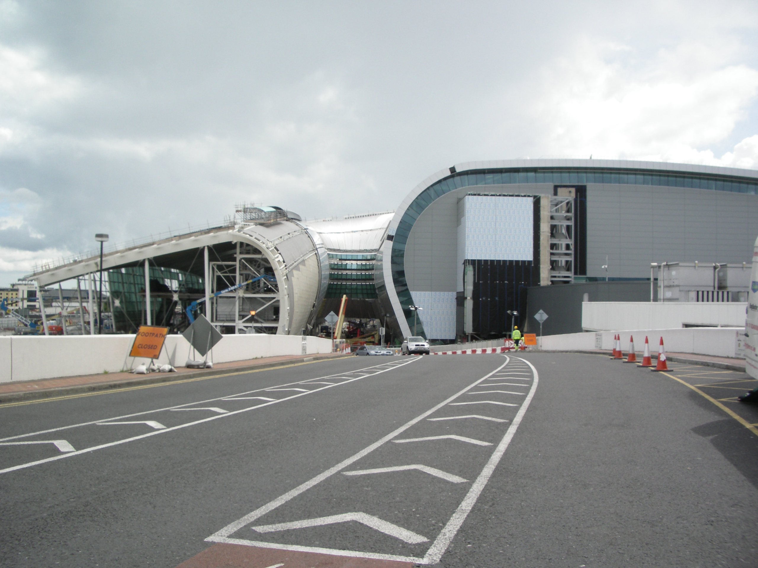 Photo of Dublin Airport Terminal 2, taken by myself on 23rd July 2009.